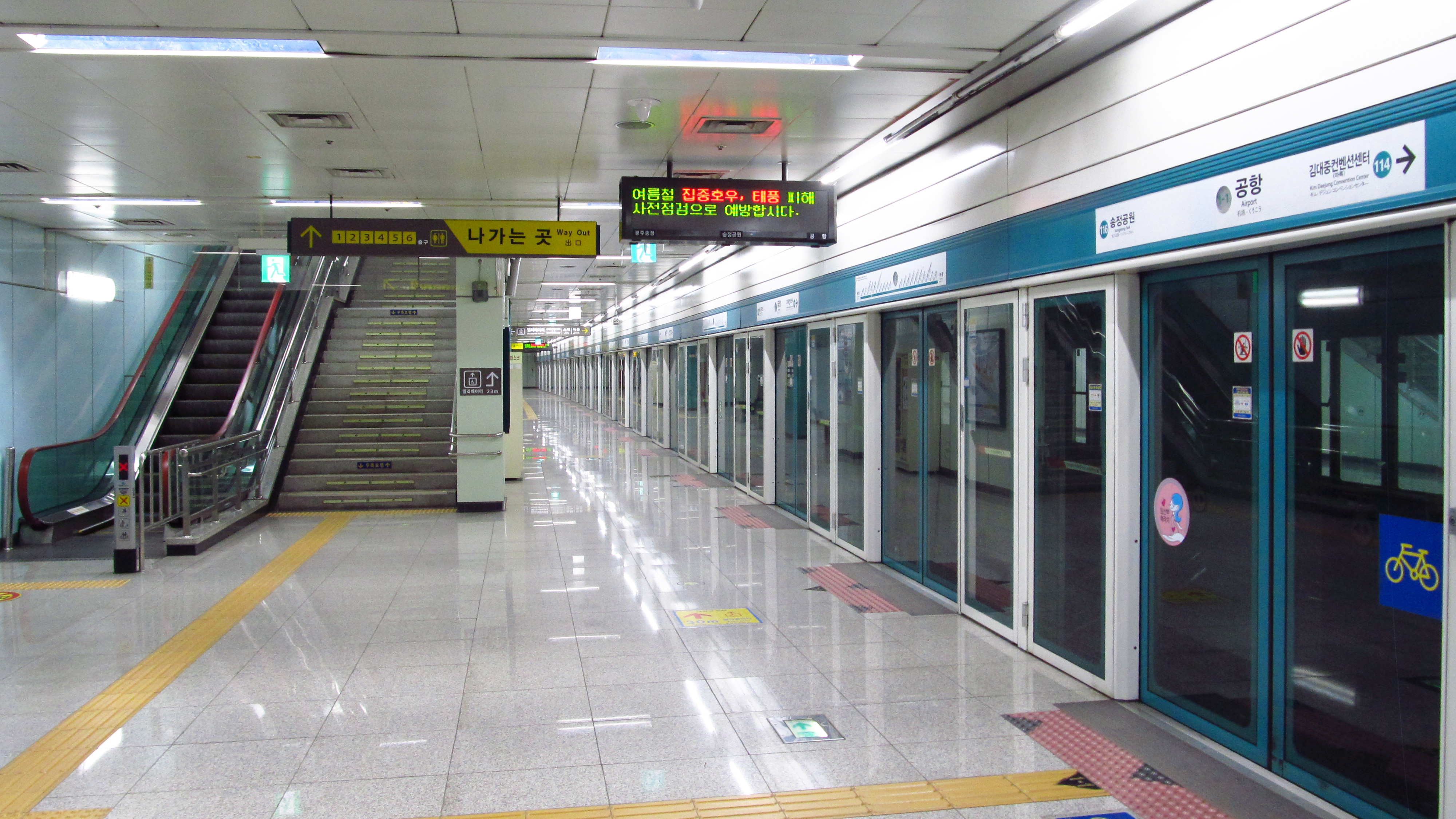 The platform at Airport Station on Gwangju Metro Line 1 in Gwangsan-gu, Gwangju, Republic of Korea(South Korea)